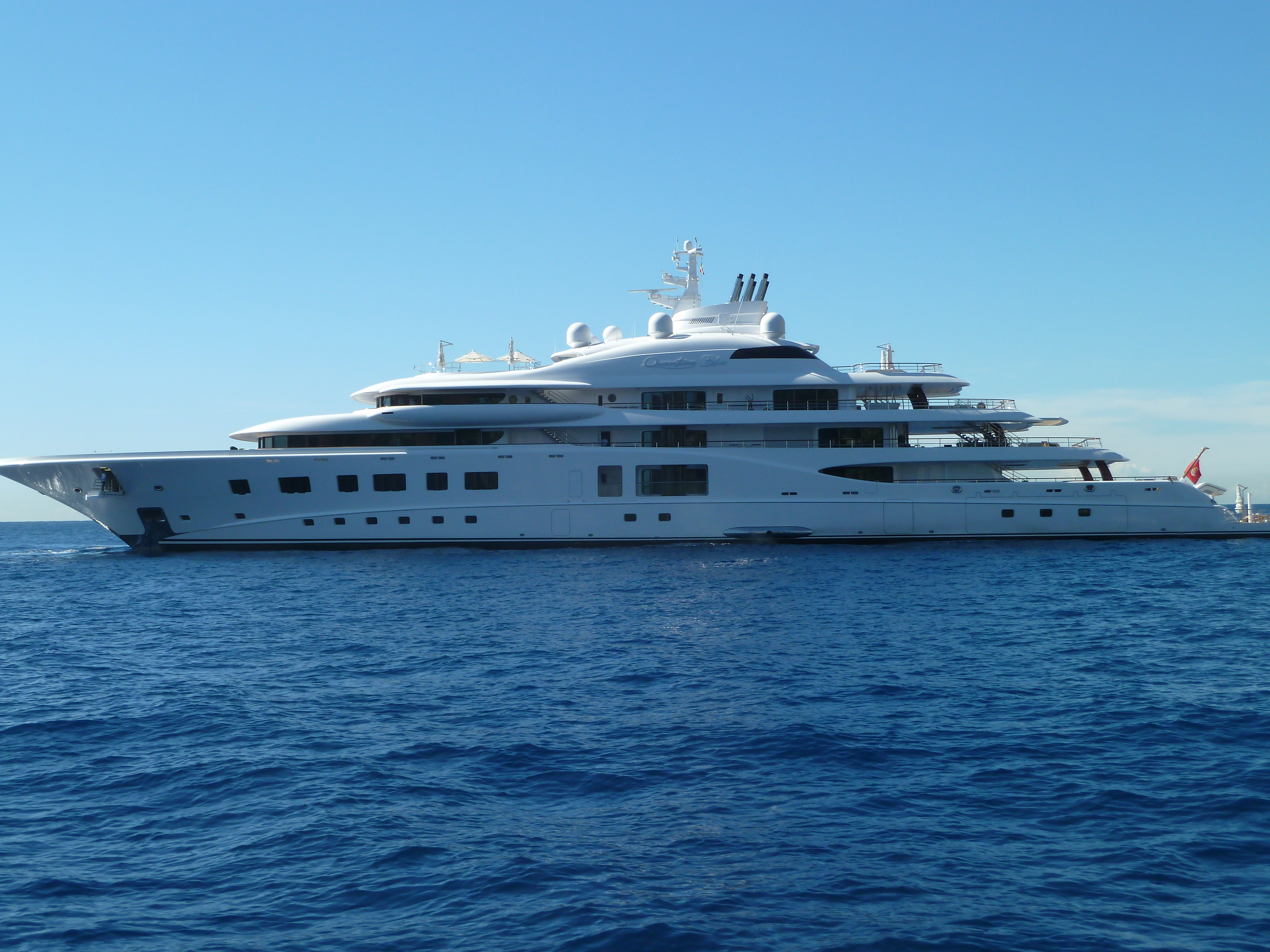 quantum blue in piccola marina, Capri